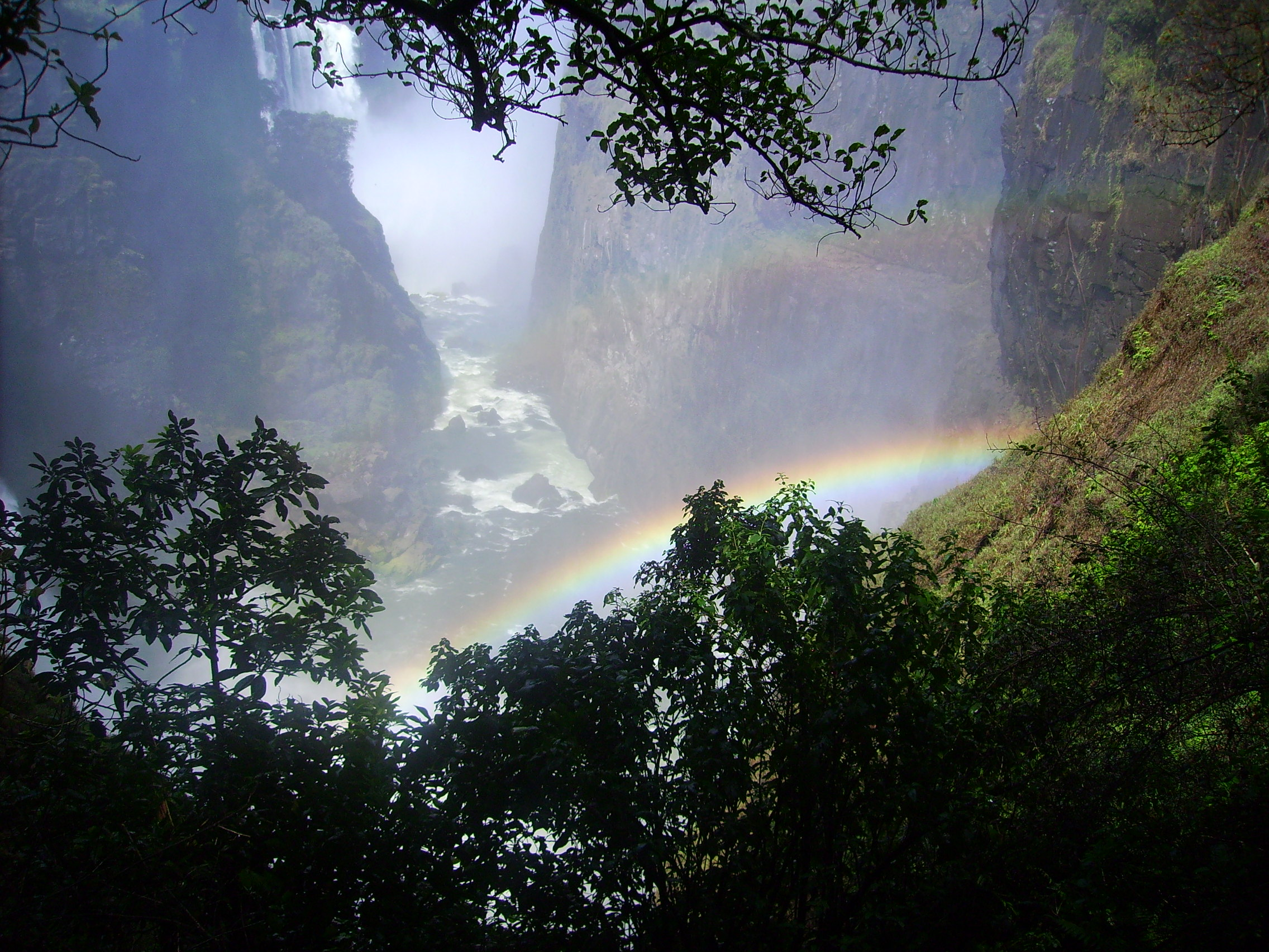 Rainbow at Victoria Falls